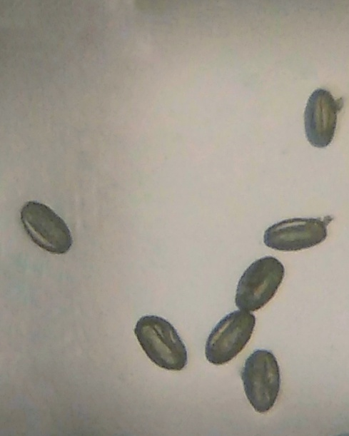 Pollens of Lagenaria siceraria